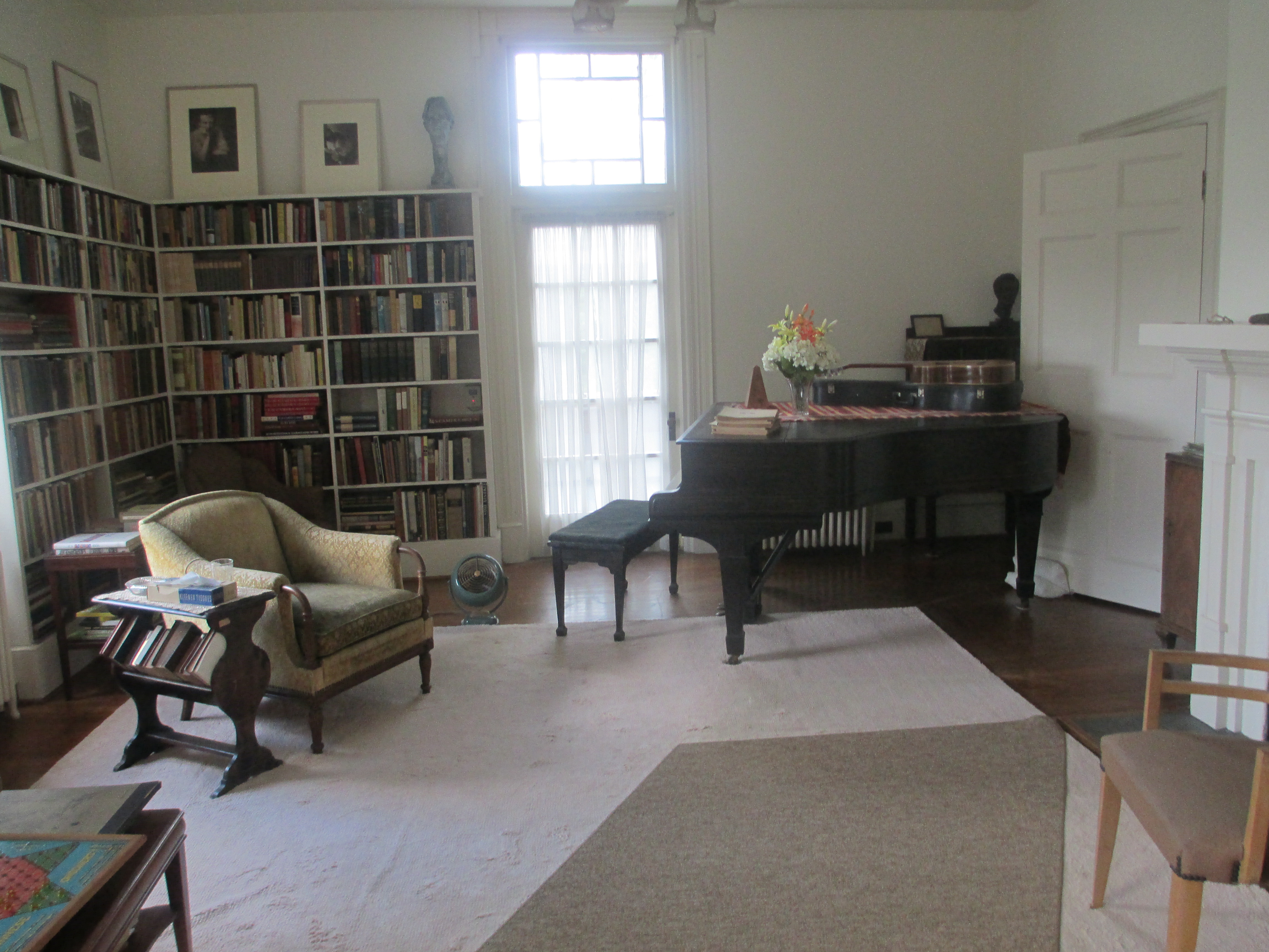 I took photo with Canon camera of Sandburg parlor.